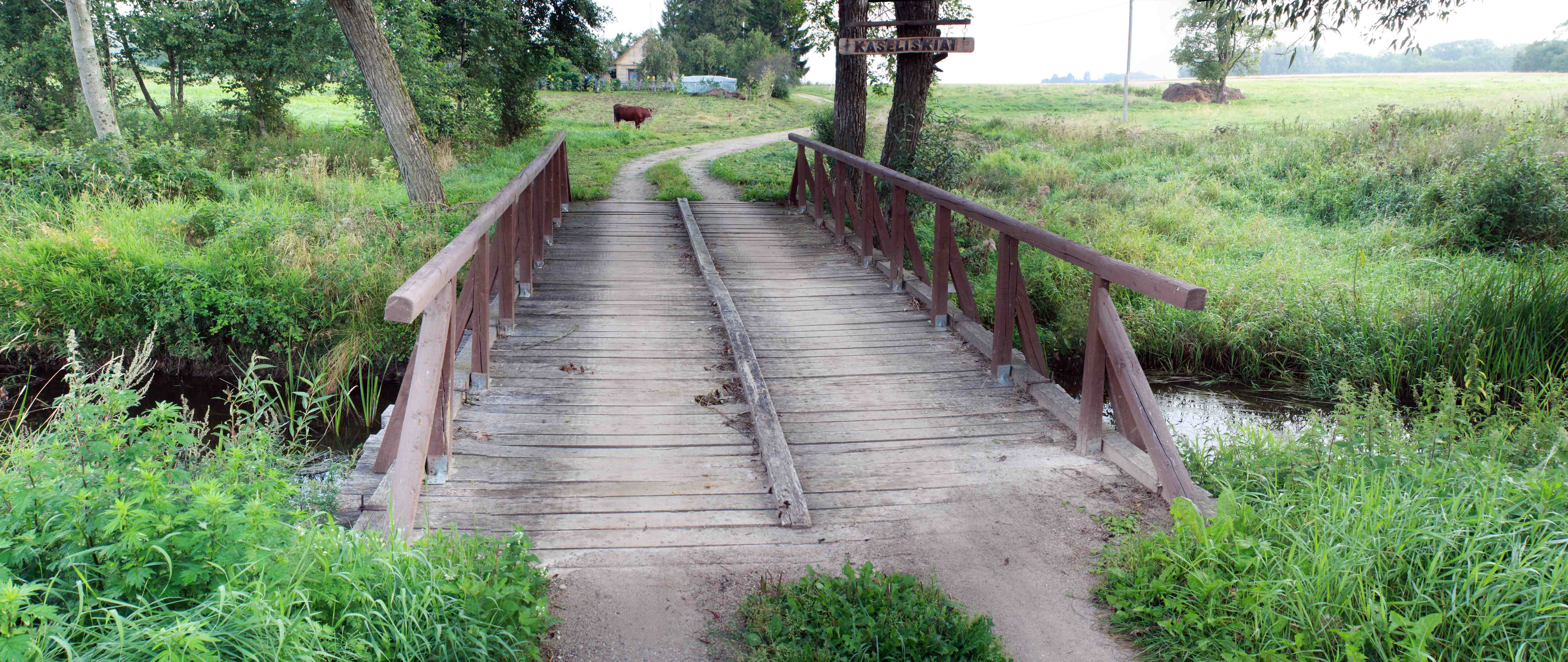 River Aukštoji Gervė by Kašeliškiai, Biržai district municipality, Panevėžys County, northern Lithuania.